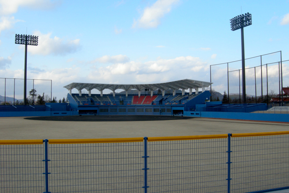 Higashihiroshima Baseball-field in Higashihiroshima, Hiroshima pref., Japan.